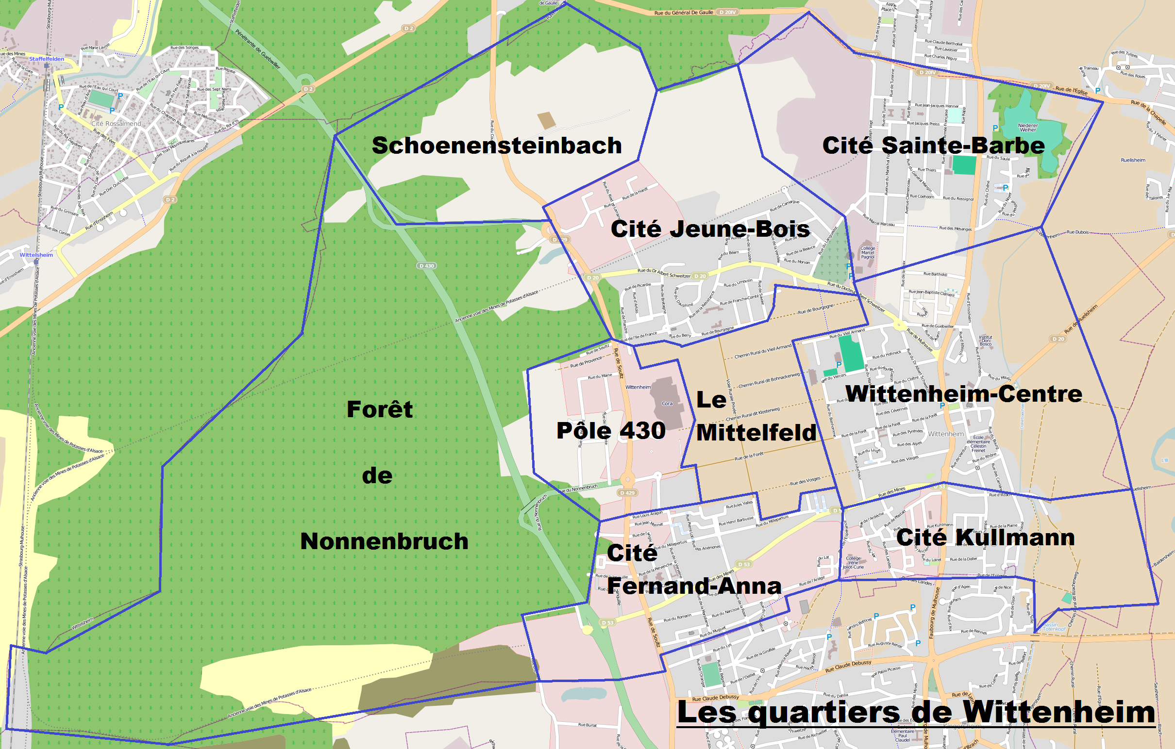 map of Wittenheim, suburbs of Mulhouse